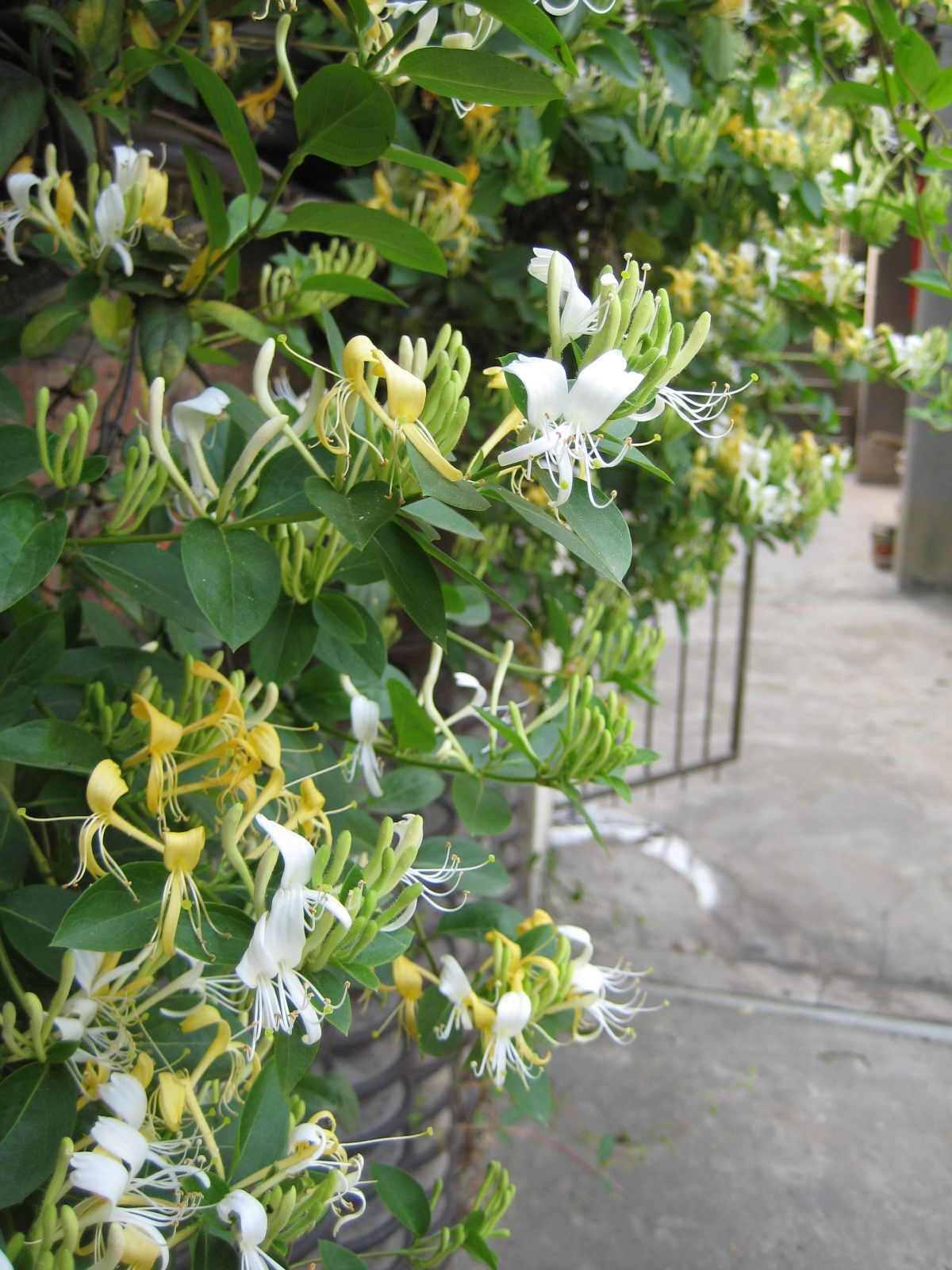 Lonicera japonica